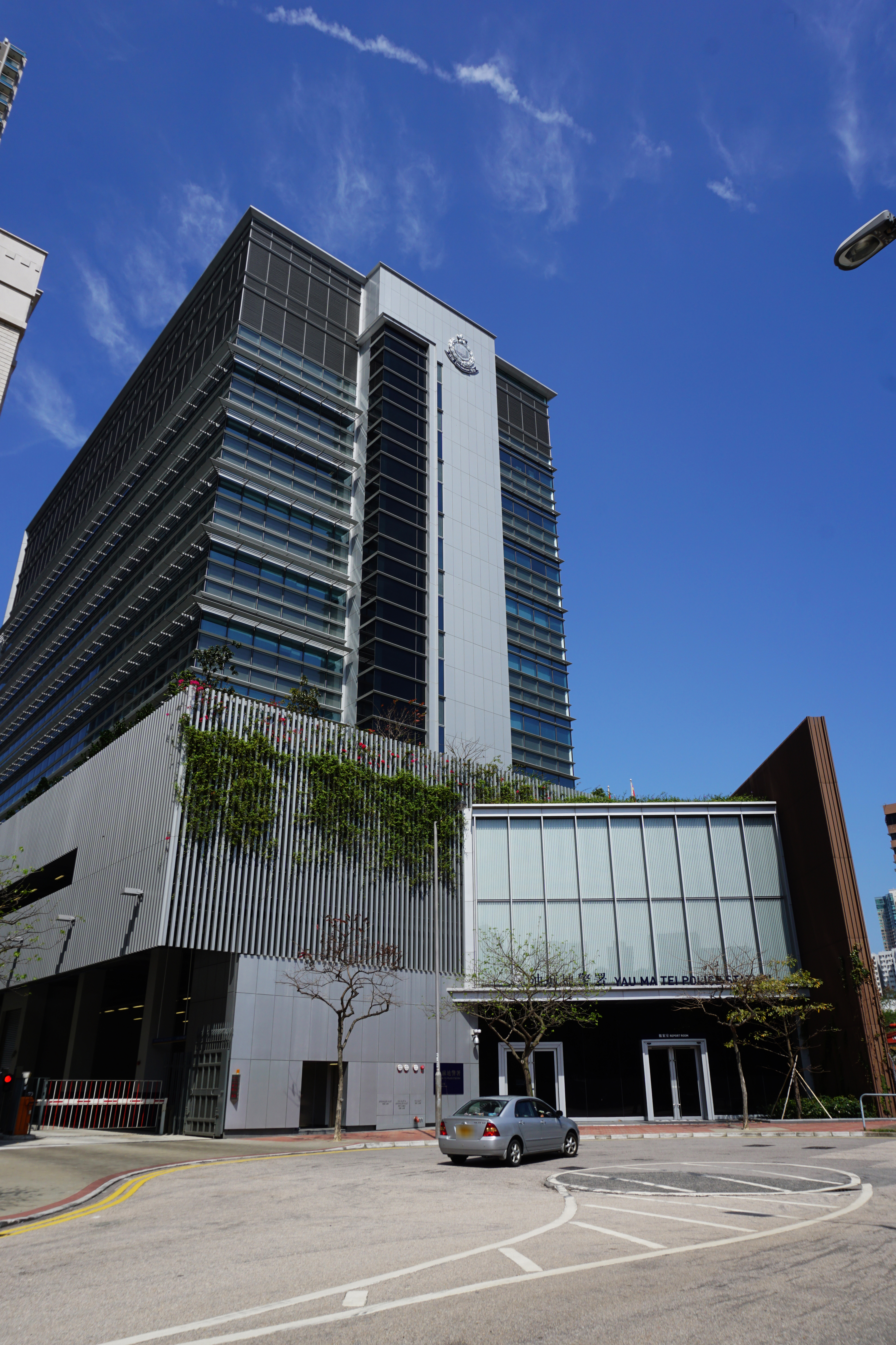 New Yau Ma Tei Police Station in Yau Cheung Road, Hong Kong.